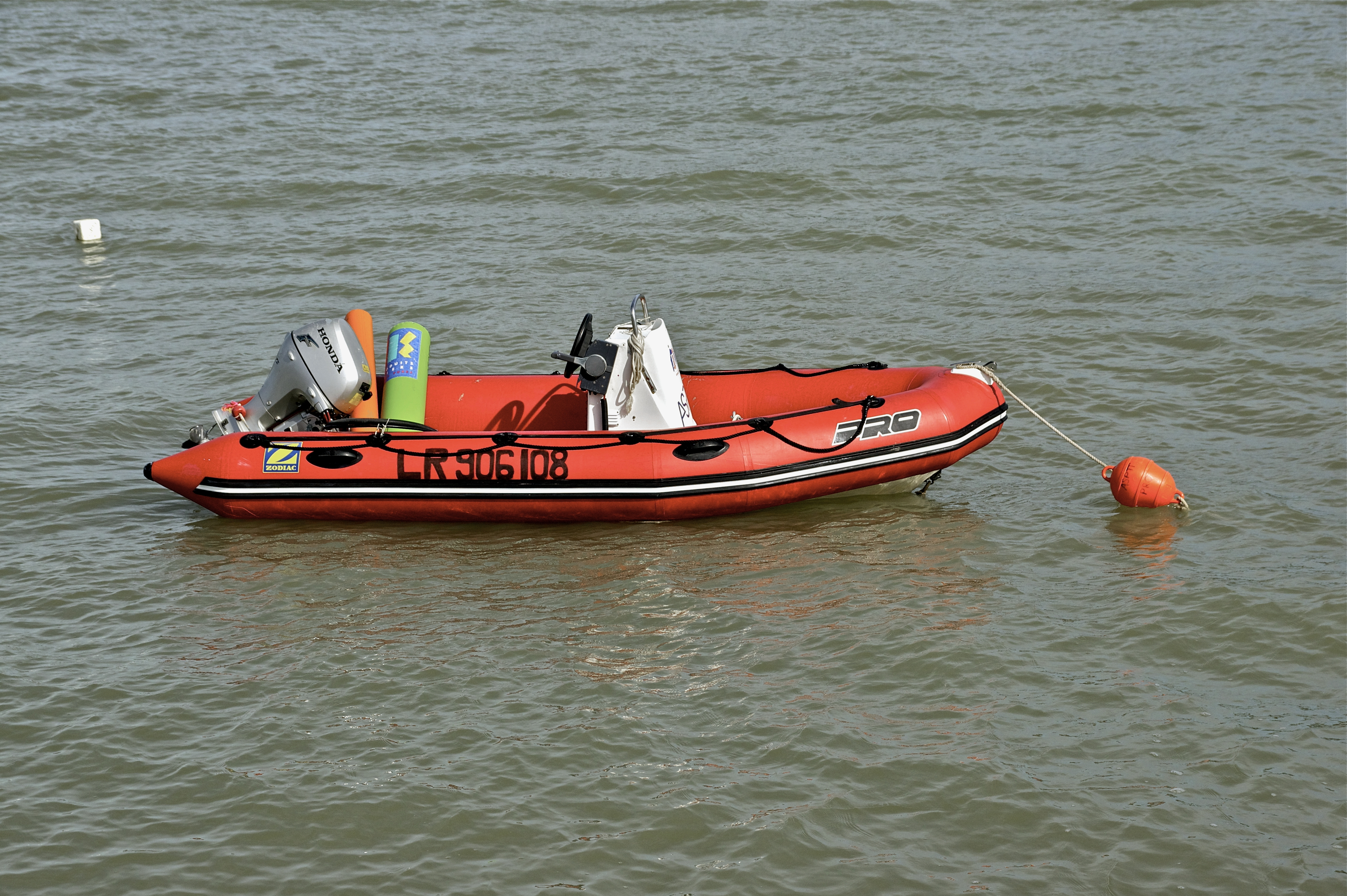 An inflatable "Zodiac" boat, with a "Honda" engine, harbor of La Rochelle, Charente-Maritime, France.